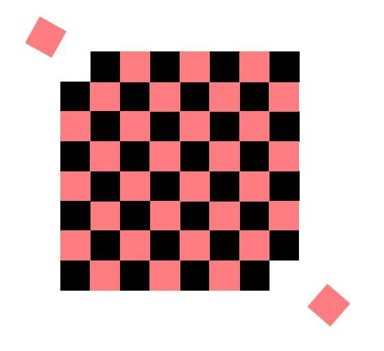 The mutilated chessboard